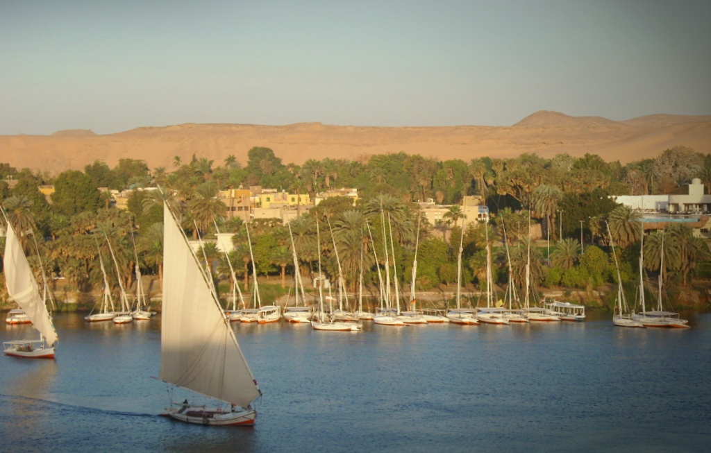 نهر النيل في أسوان